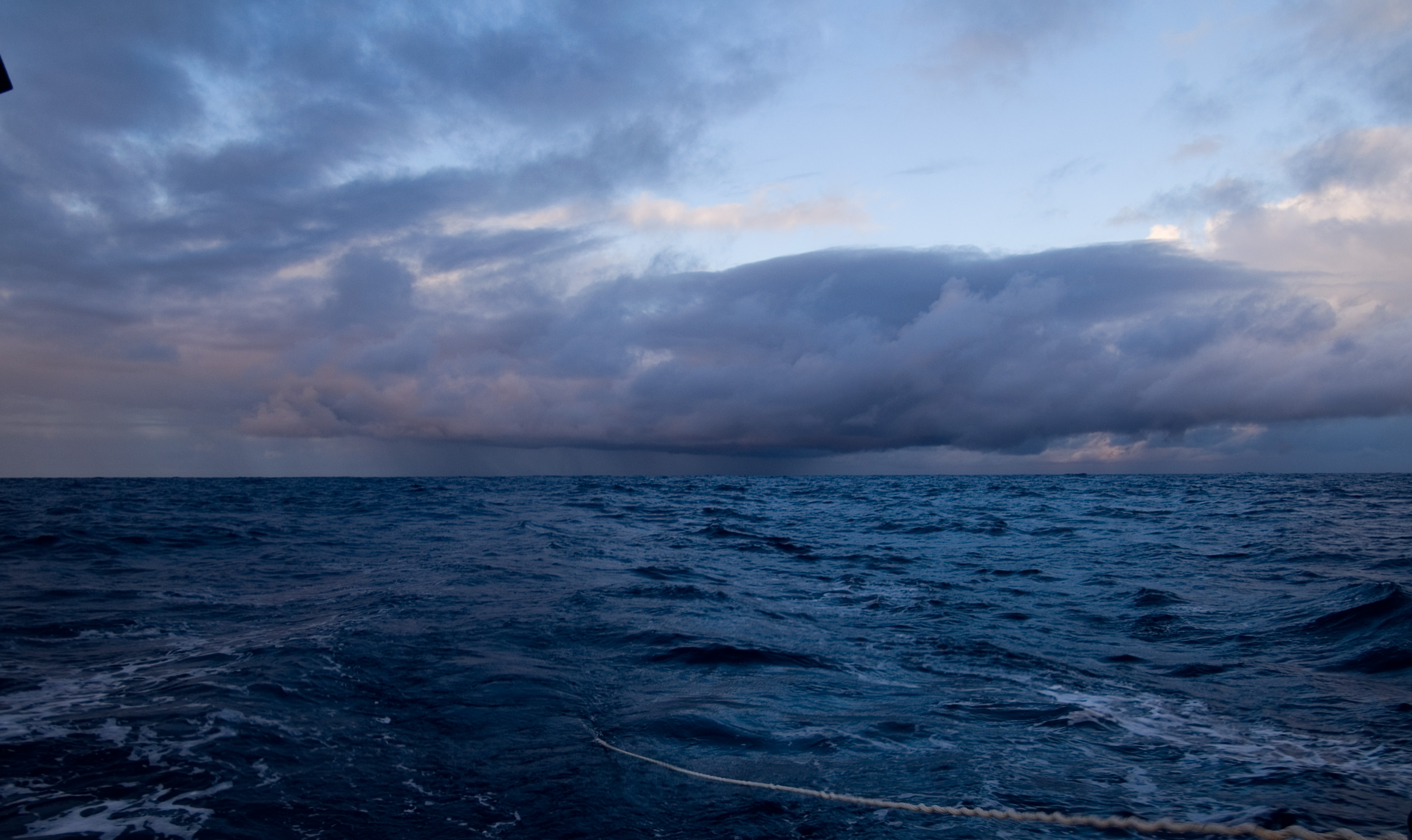 Storm in the South Pacific.